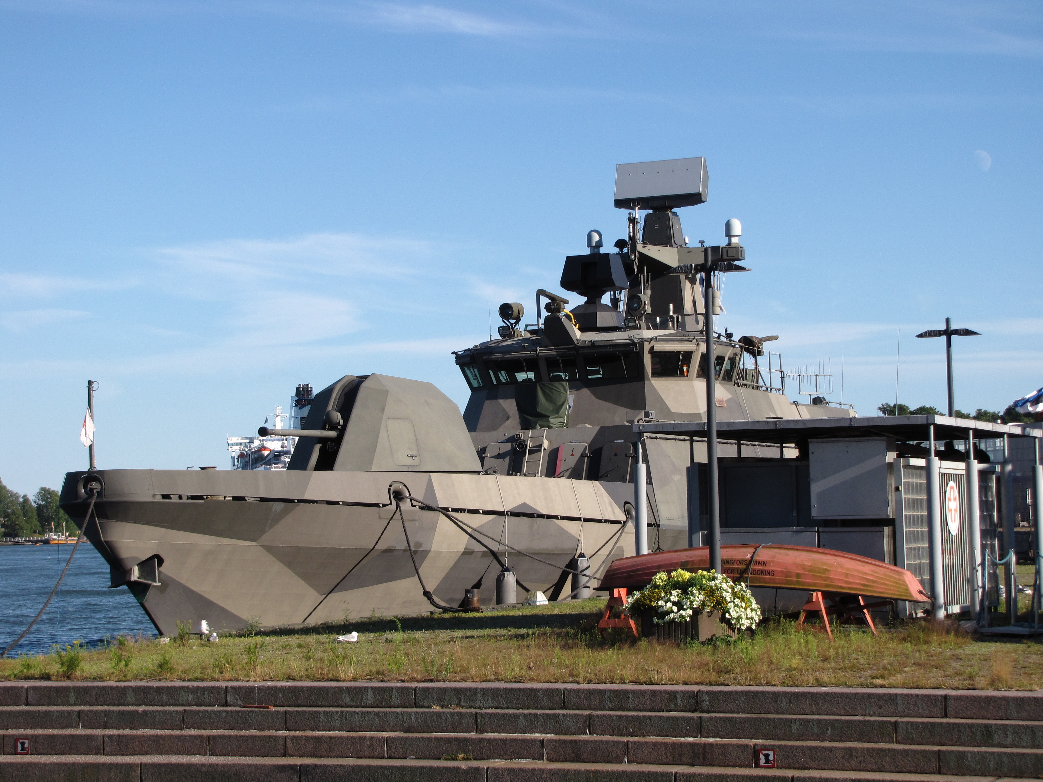 Bow of the Finnish missile boat Pori (83).